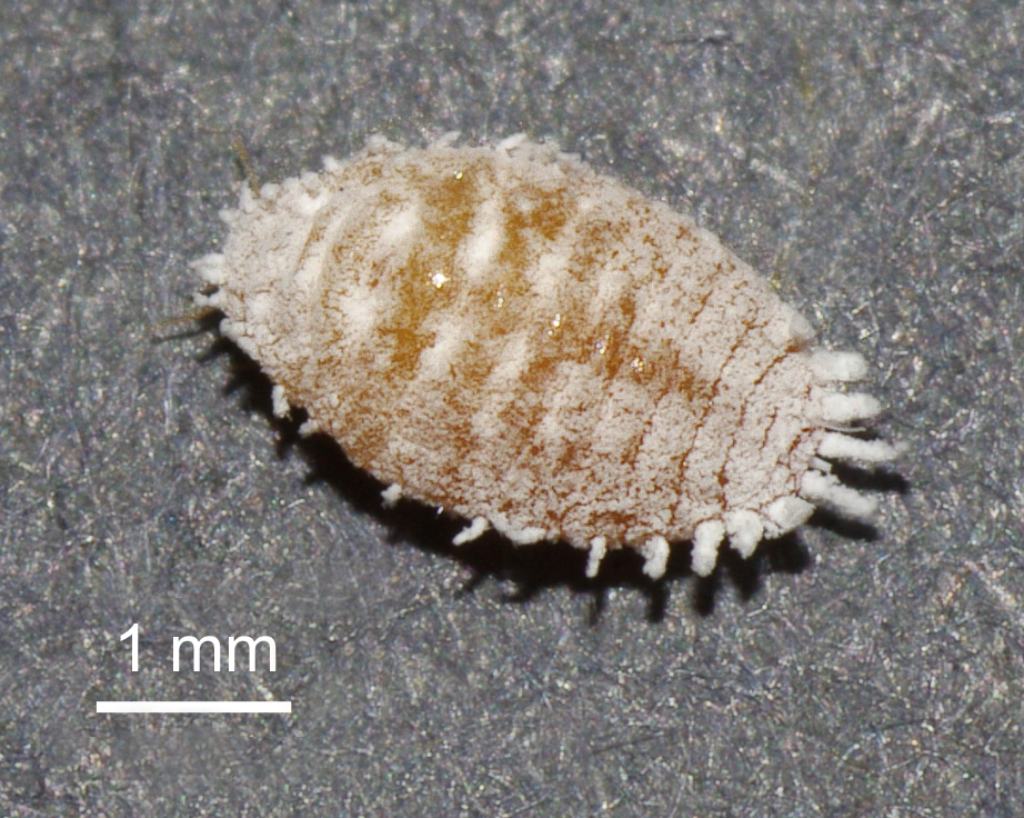 A species of mealybug (probably a female Planococcus citri or P. ficus ?); found indoor on a plant of Ficus pumila. The animal's head is on the left side.